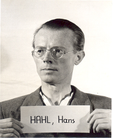 Hans Hahl as a witness during the Nuremberg Trials.